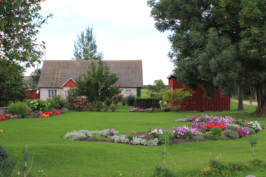 Garden on Kihnu island in Estonia